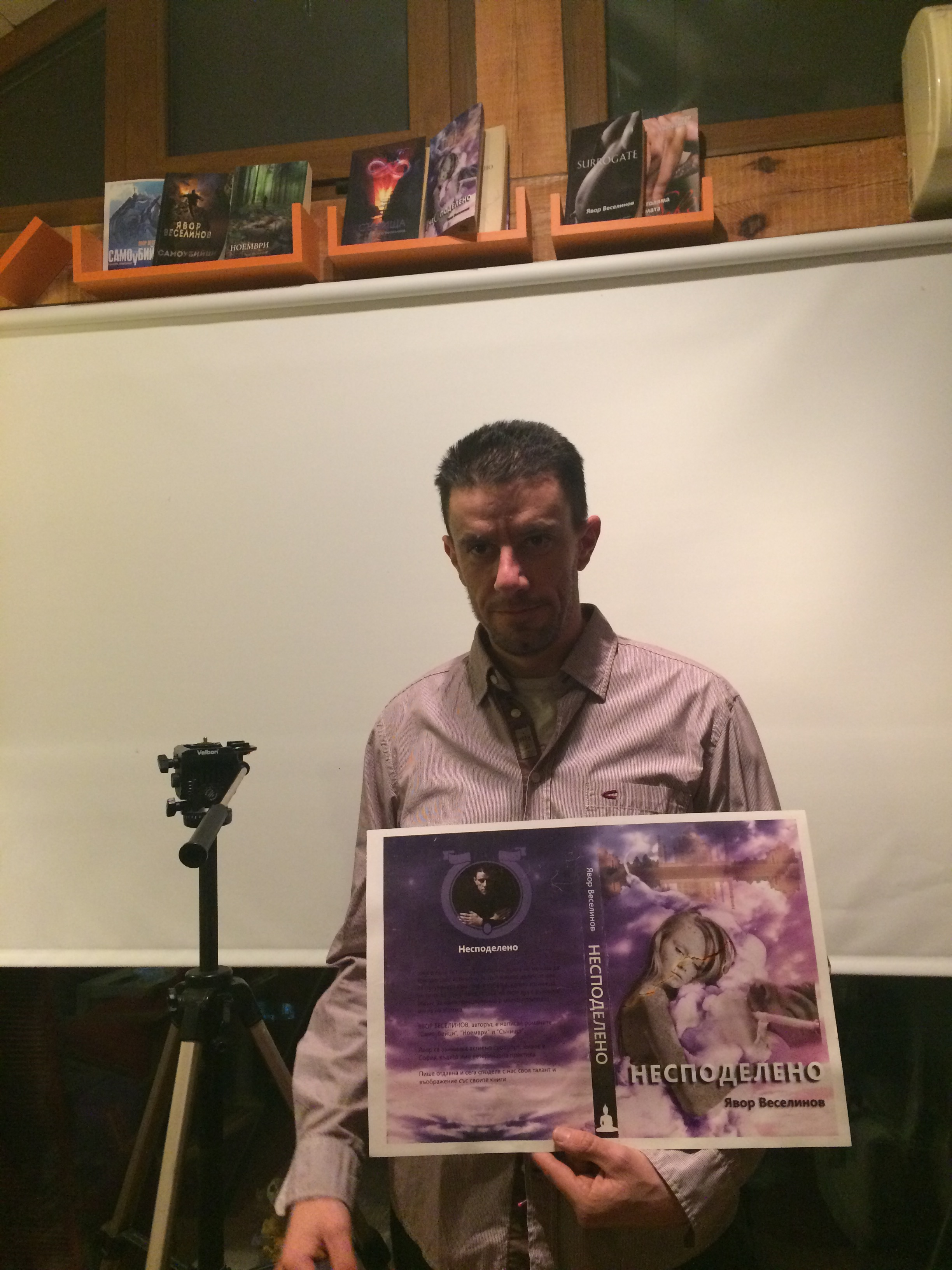 Description of books